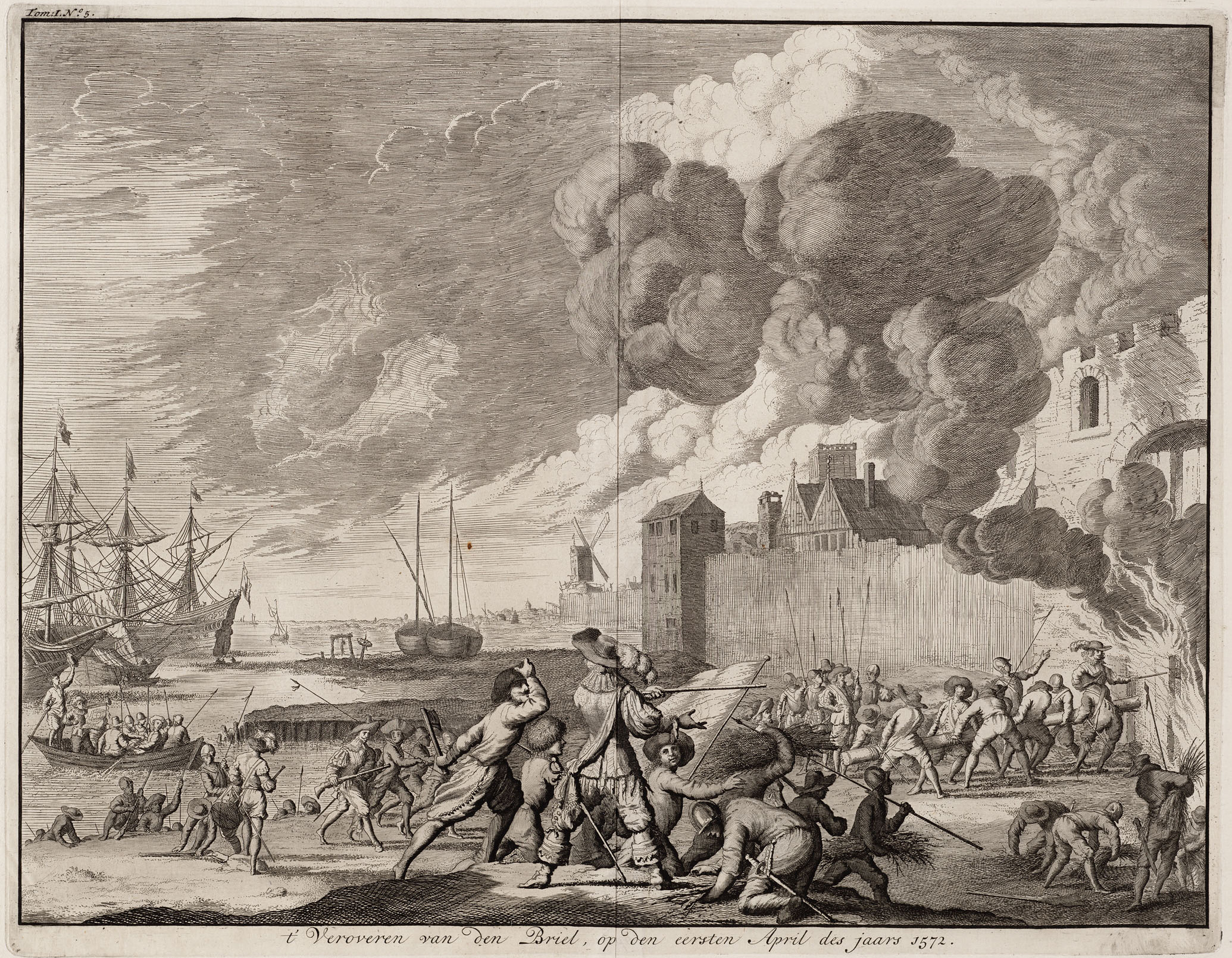 The capture of Den Briel in 1572